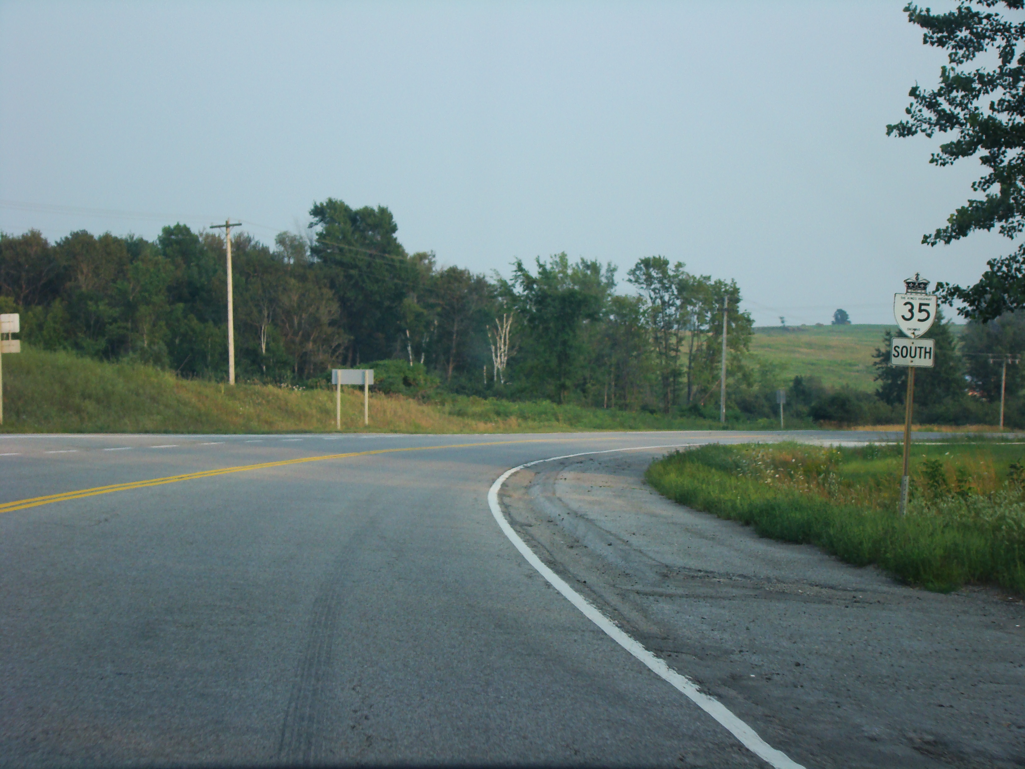 Highway 35 in Ontario, southbound near Fenelon Falls with Kings Highway route marker visible.